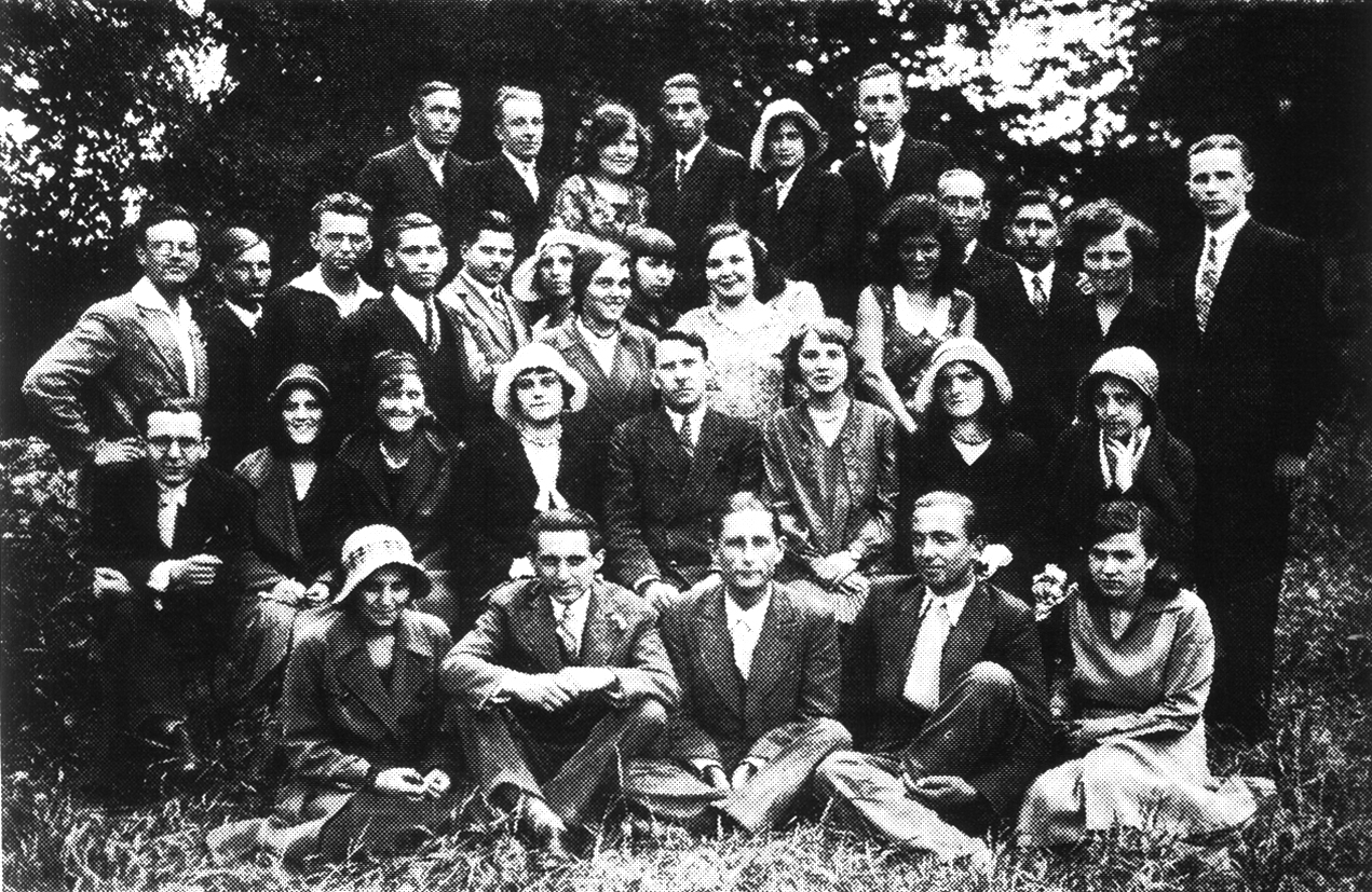 Group of Ukrainian students in Lviv, 1931. Second row from bottom, left: Bohdan Ihor Antonych.